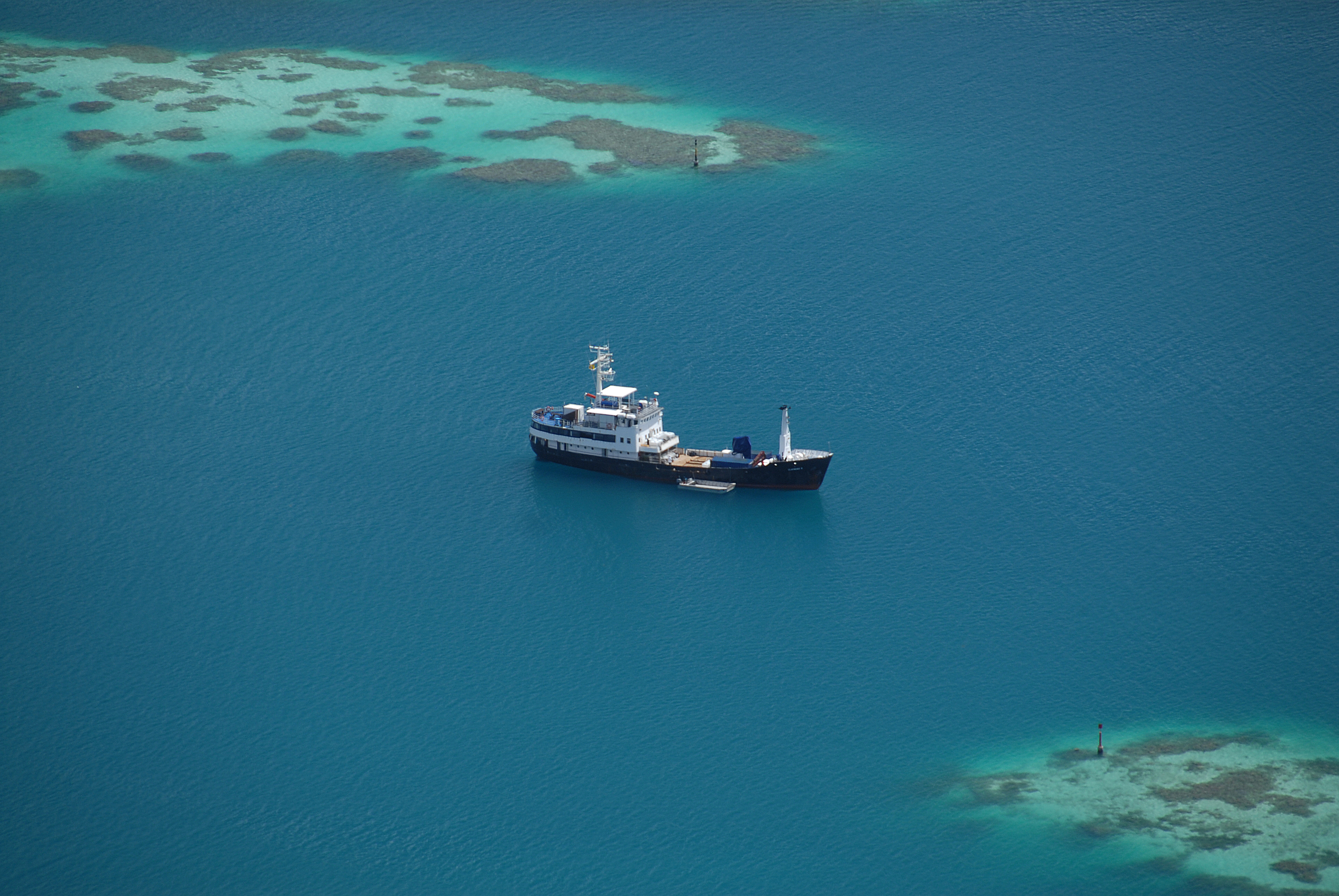 m/v "Claymore II" at anchor, Rikitea